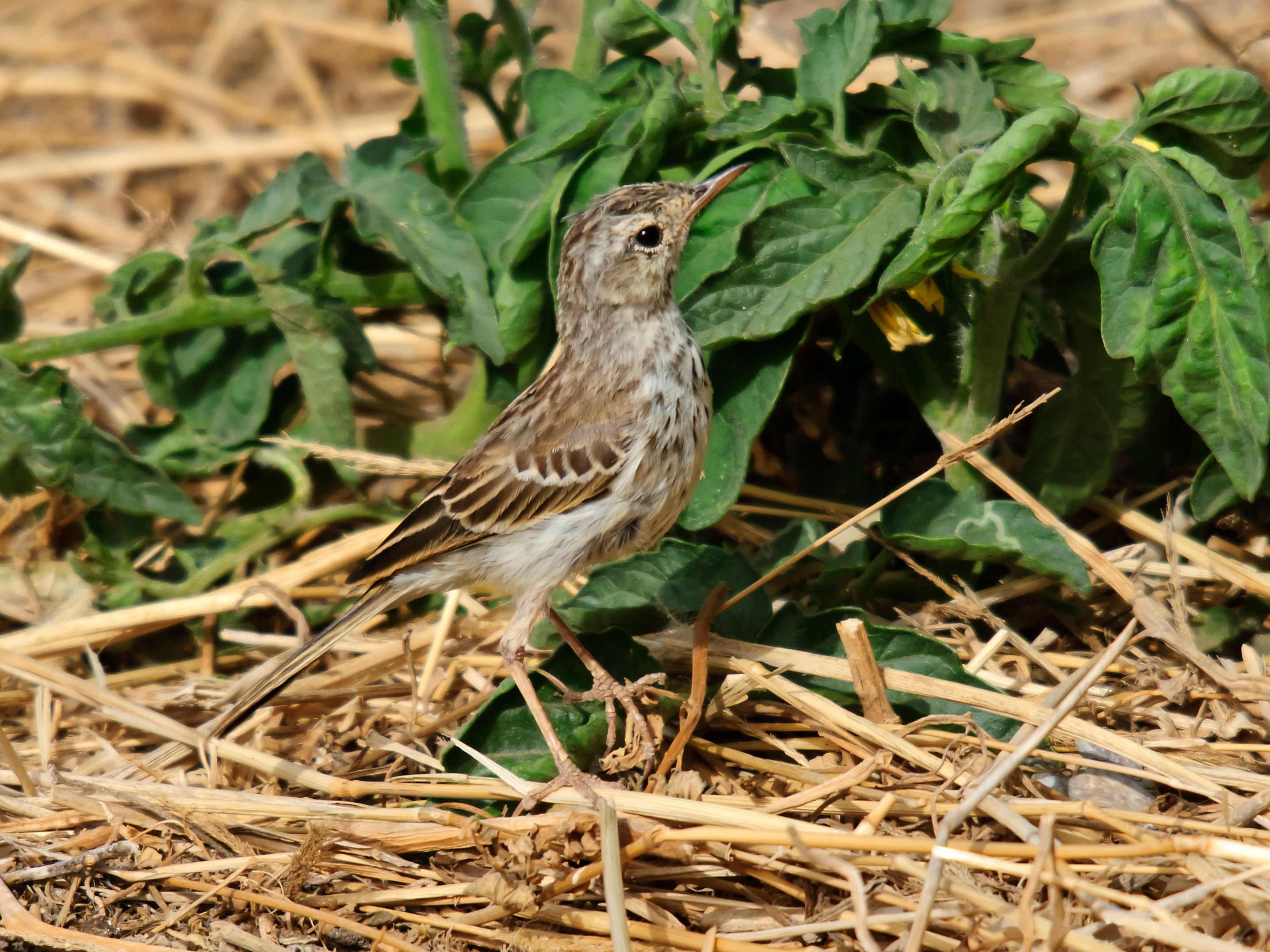 A Berthelot's Pipit on Gran Canaria, Canary Islands, Spain.